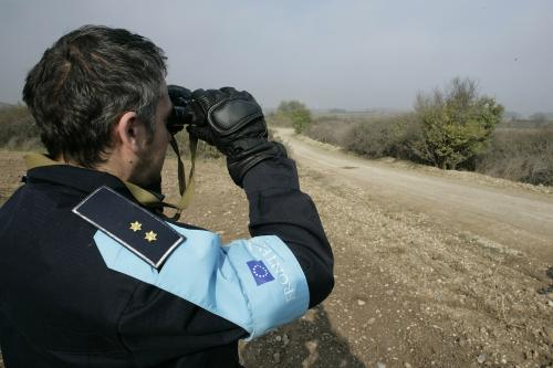 FRONTEX member on the first joint patrol with the Greek police on Greco-Turkish border in Kastania